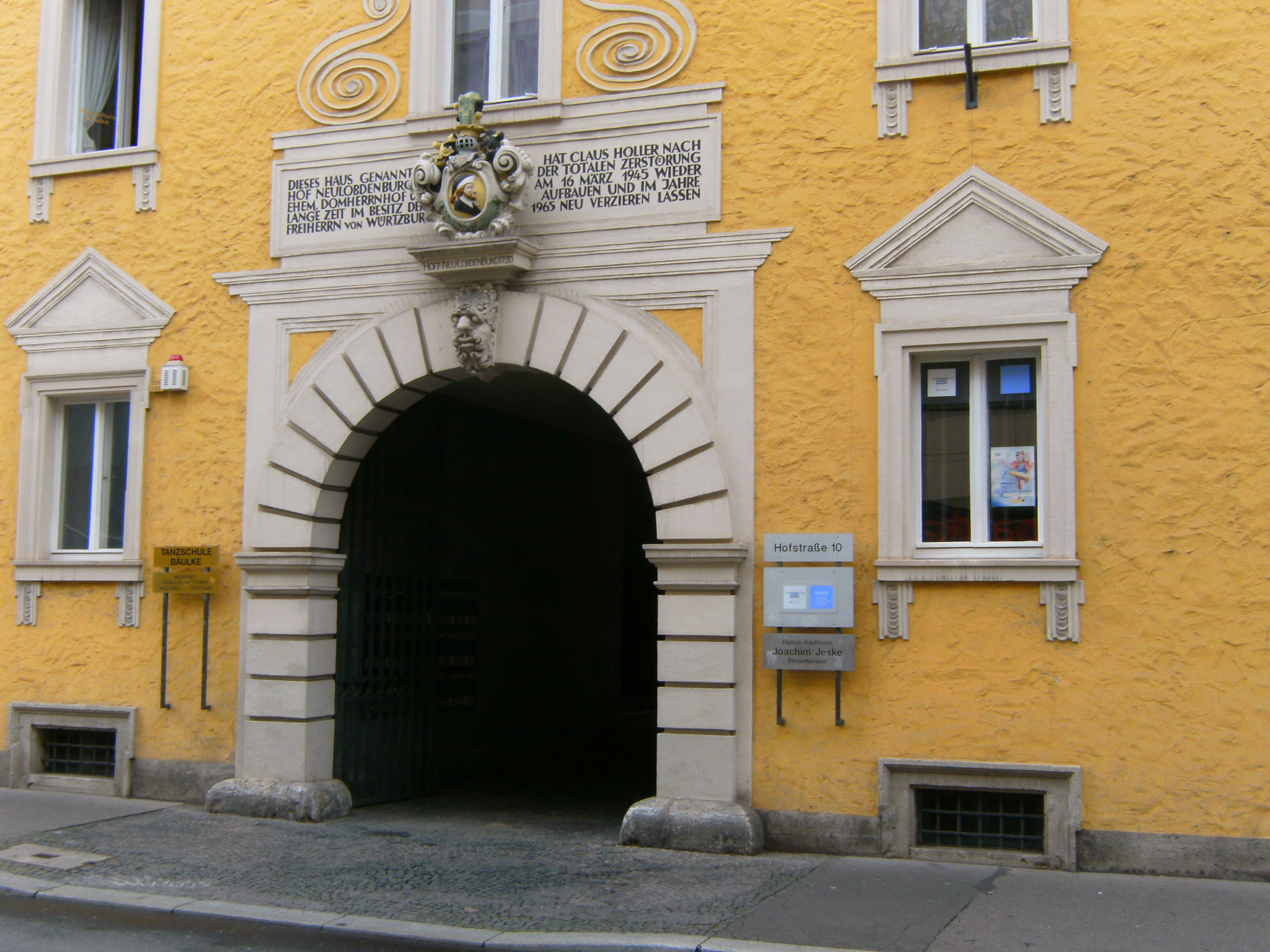 Würzburg, Hofstraße 10: Plaque to remember reconstruction after demolition in 1945.